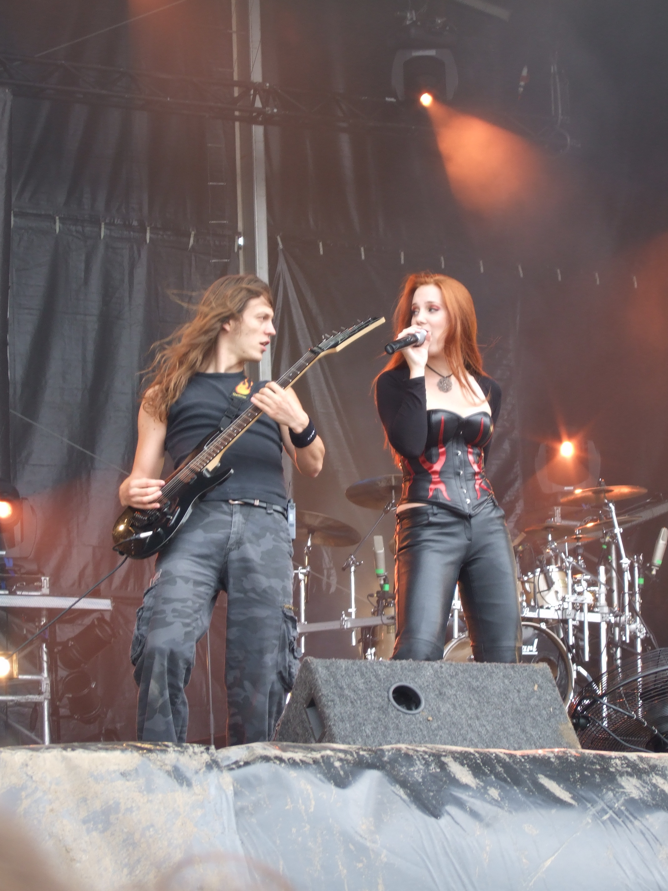 Epica at Hellfest Summer Open Air 2007.